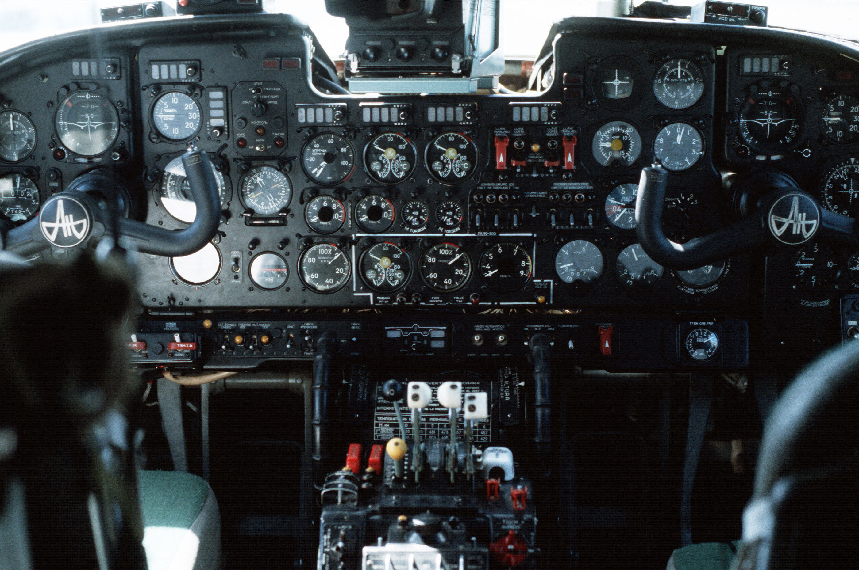 A view of the instrument panel of a Soviet-made An-26 Curl transport aircraft of Cubana airlines. The aircraft was seized at Pearls Airport during Operation URGENT FURY.